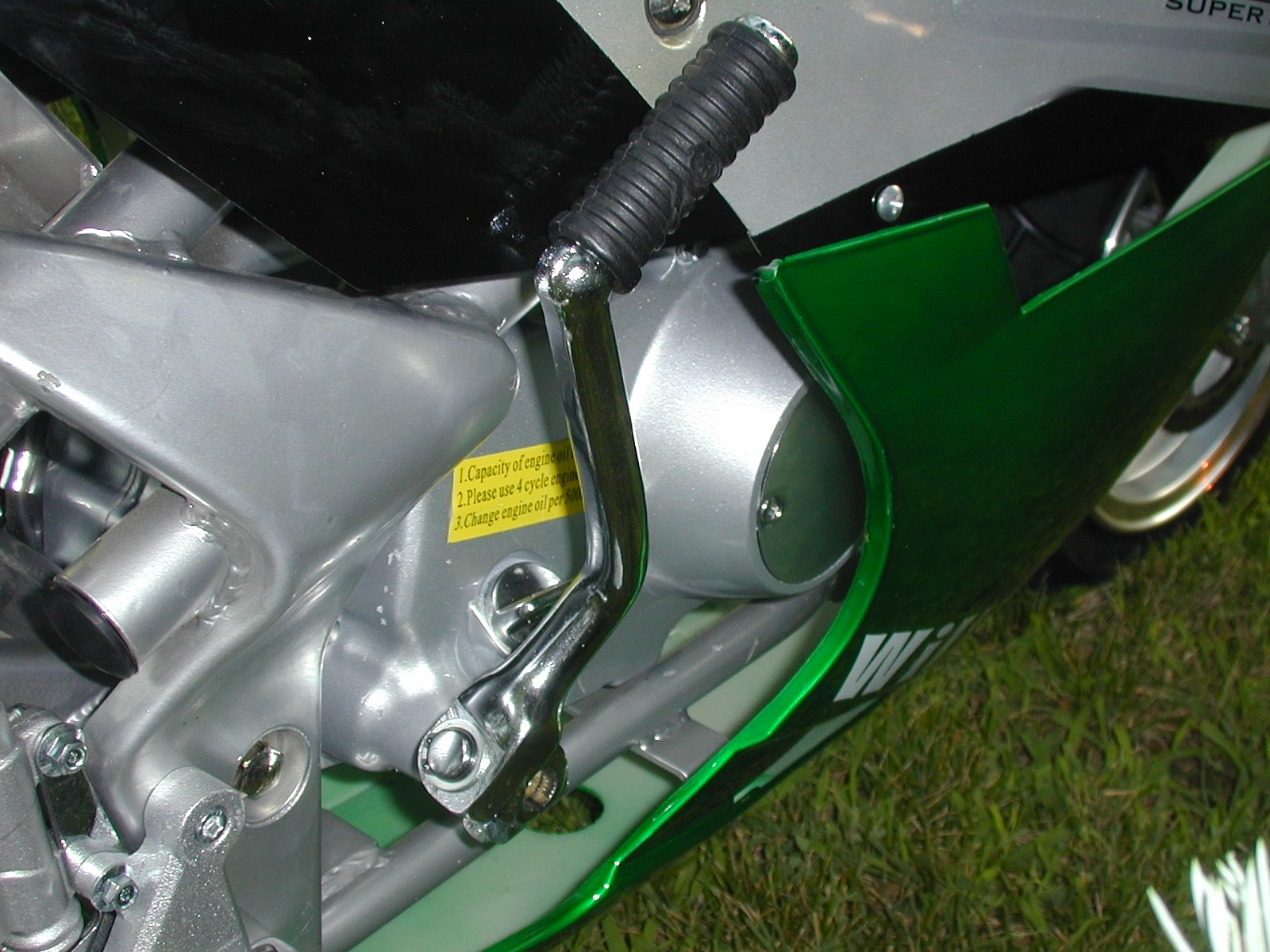 Kick starter